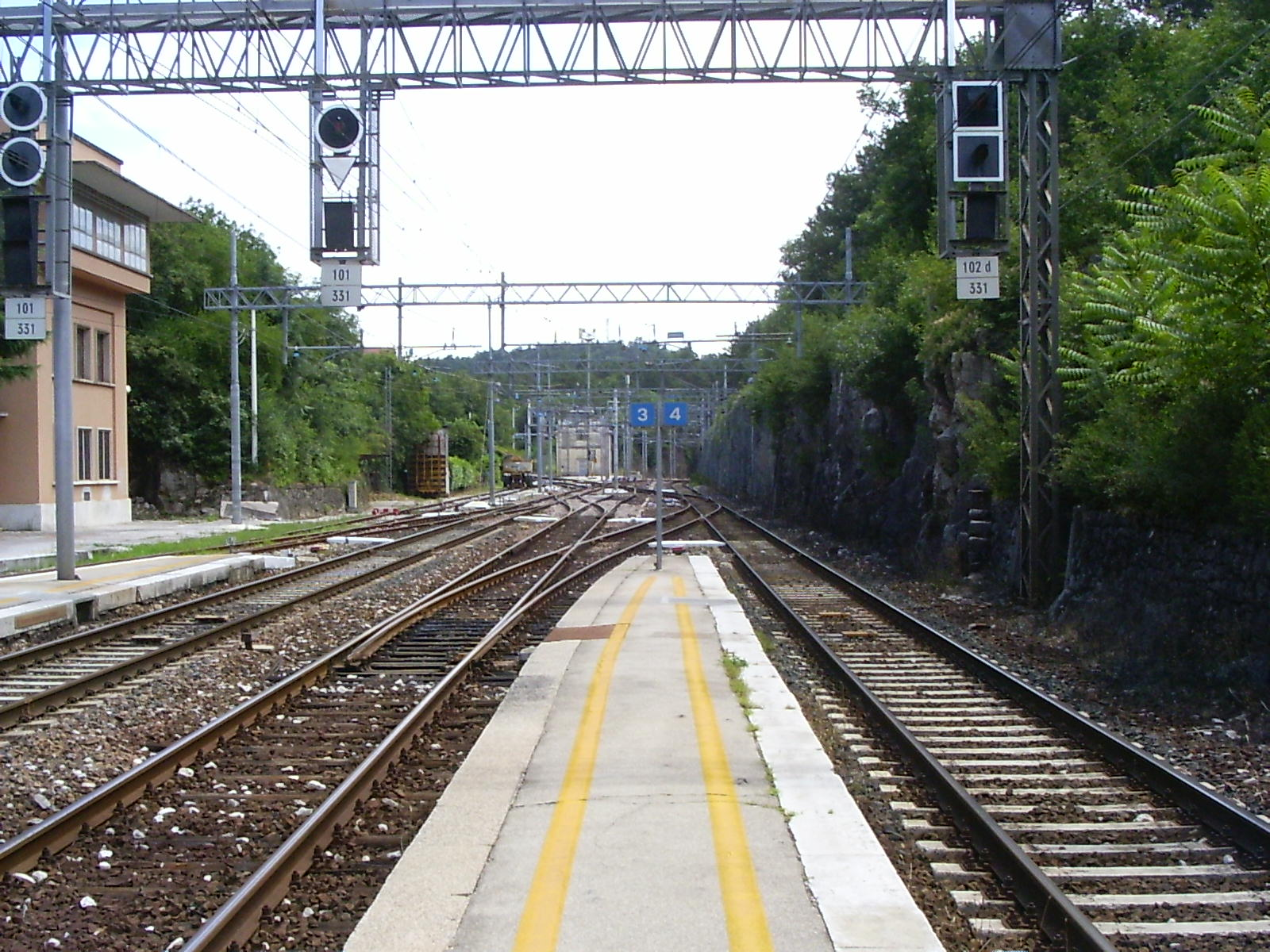 Bivio d’Aurisina train station, view towards Trieste and Villa Opicina